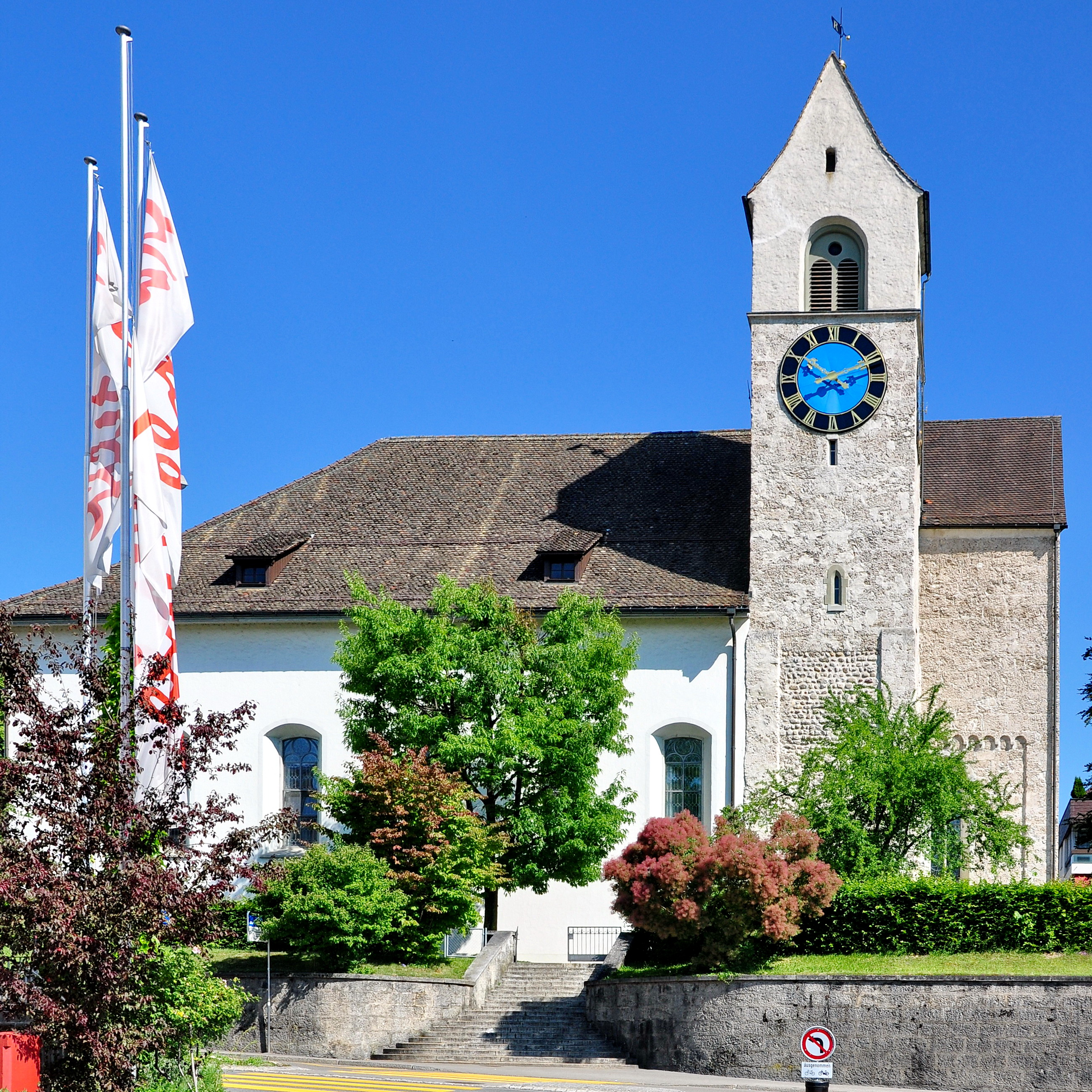 Rüti (Switzerland) : Former Rüti Abbey, as of today the protestant church, as seen from the southeasternly Dorfstrasse.